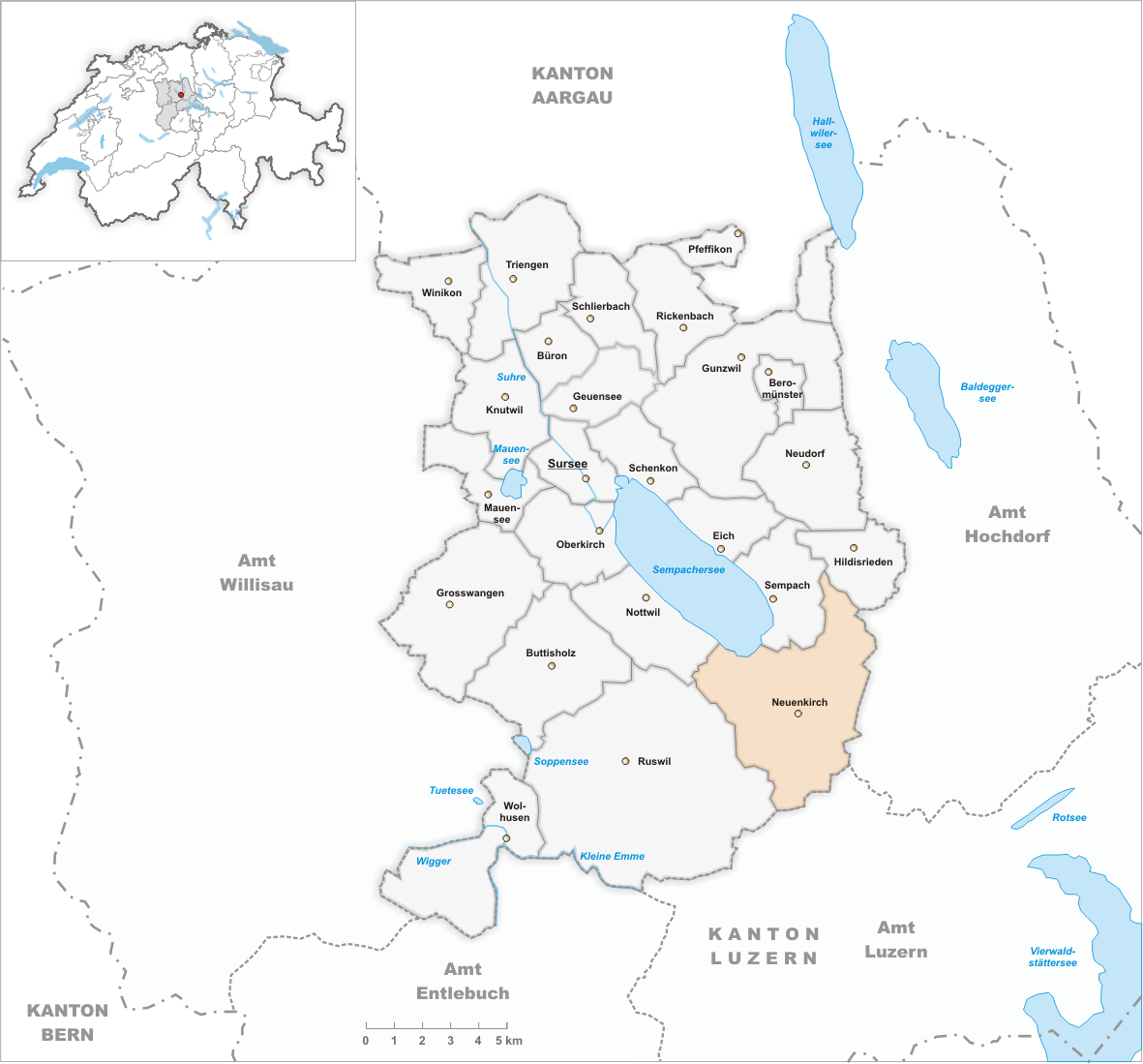 Municipality Neuenkirch